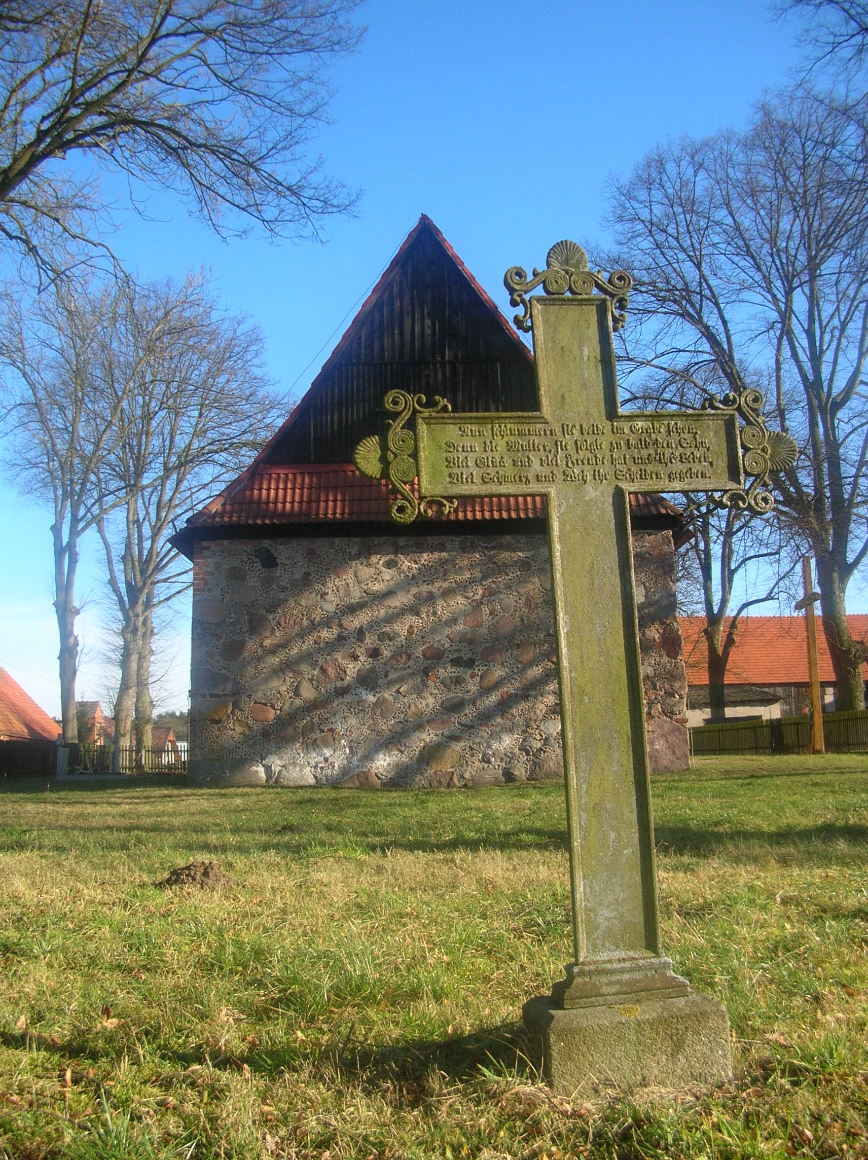 Iron cross in churchyard in Mielenko Gryfińskie near Gryfino